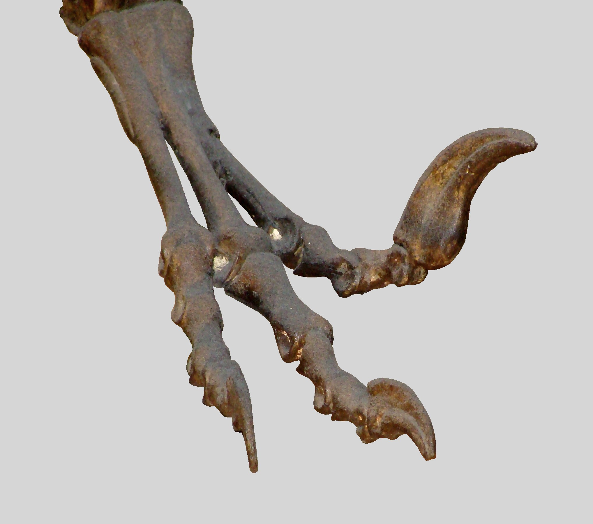 Dromaeosaurus albertensis in the Natural History Museum of London